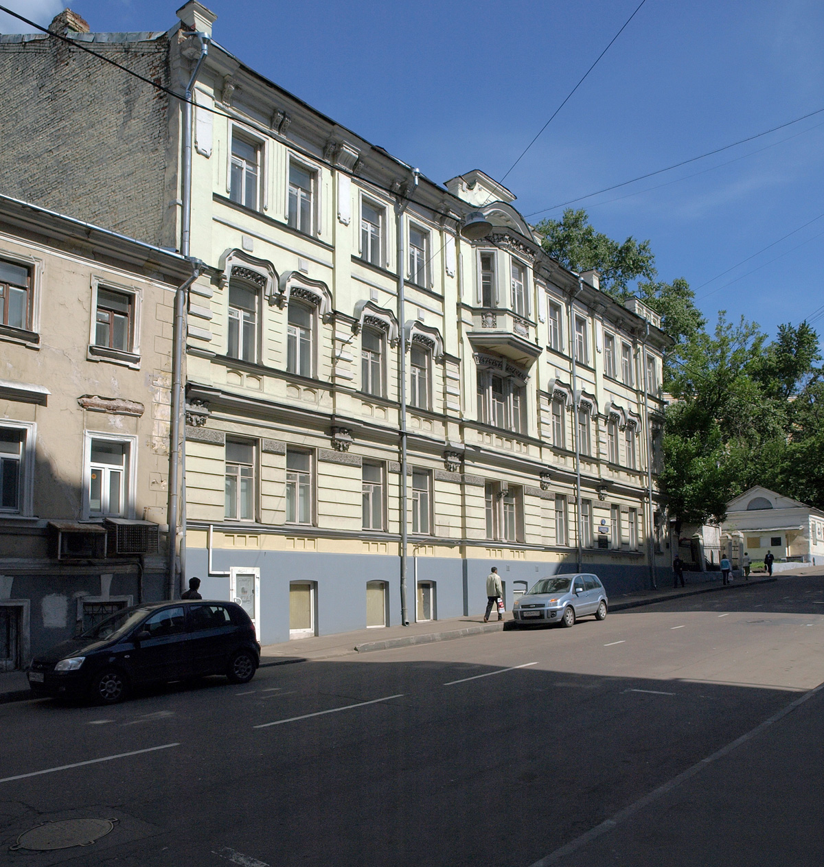 Zabelina Street, Moscow.